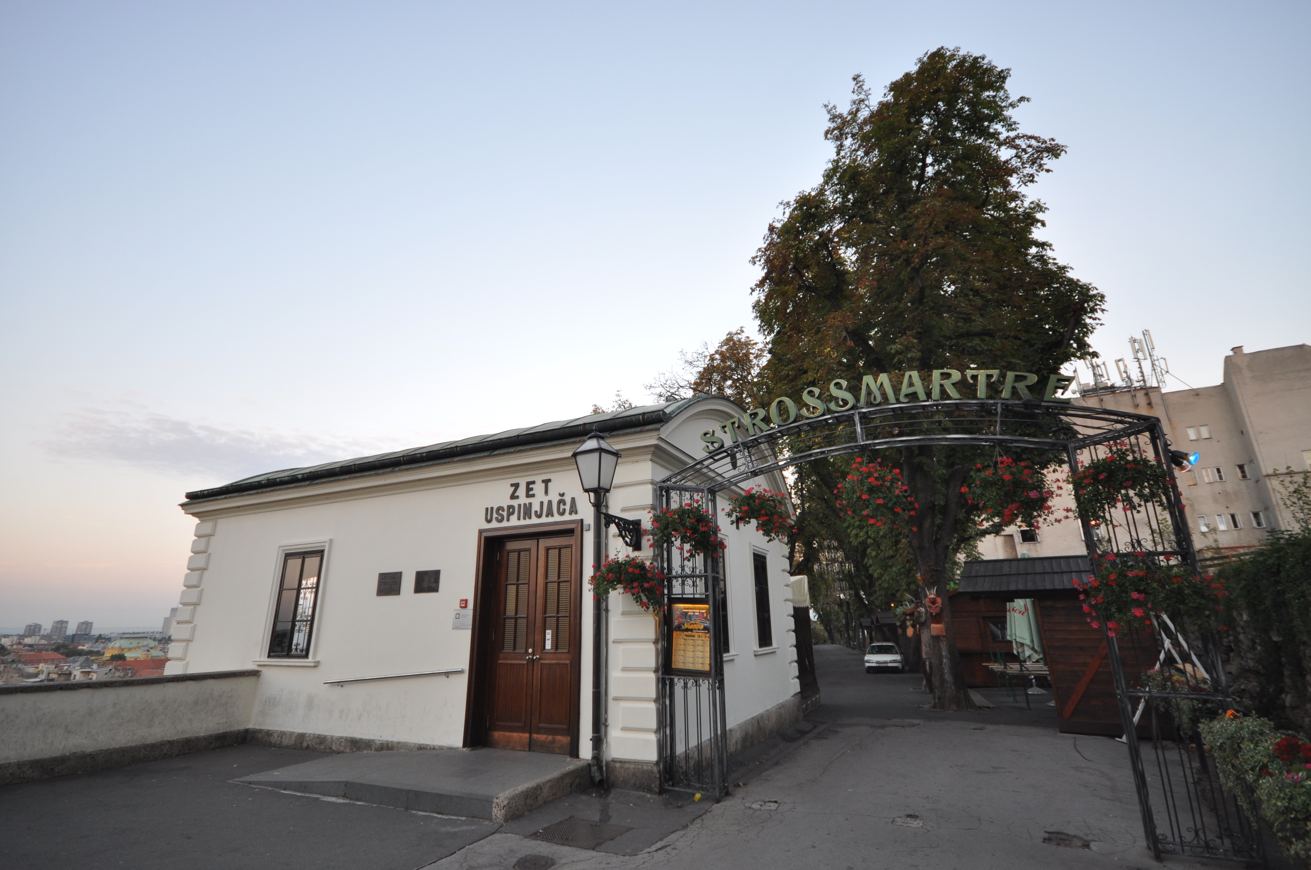 Running along the remains of Zagreb’s medieval defense walls and marking the southern border of the Upper Town (Gornji Grad), the Strossmayer Promenade is one of the city’s liveliest and most scenic walkways. Named after the famous 19th century Croatian bishop and politician Josip Juraj Strossmayer, the romantic terraced promenade is shaded by towering chestnut trees and its scenic lookouts offer expansive views over the Lower Town below. The easiest way to reach the promenade is by the funicular railway which runs from Tomićeva Street, close to the central Bana Jelačića Square, and despite being one of the shortest funiculars in the world, riding the 66-meter long track is a quintessential Zagreb experience. Although most visitors stroll the walkway to take in the panoramic views, the most atmospheric time to visit the Strossmayer Promenade is during the summer months, when the Strossmarte street festival takes over the area and the street is teeming with artists, musicians and food stalls